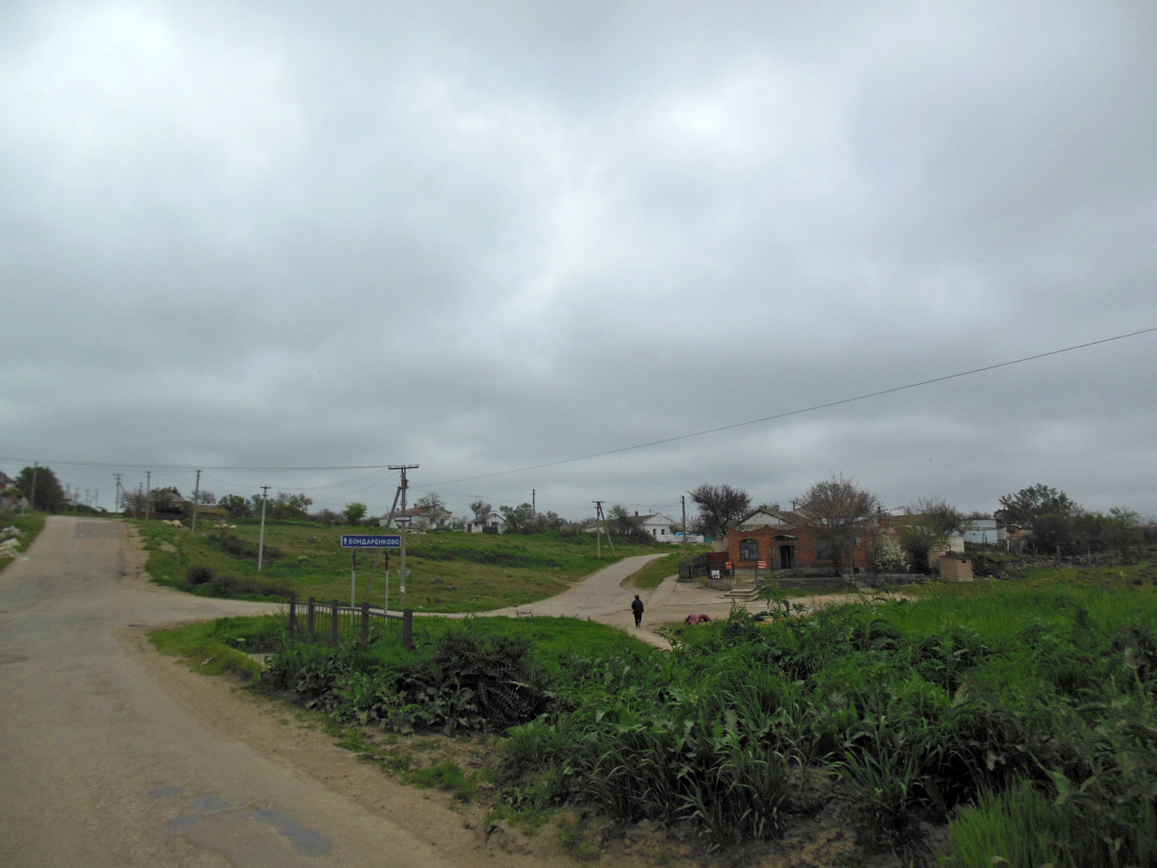 Village Voykovo, Leninskiy Raion, Crimea